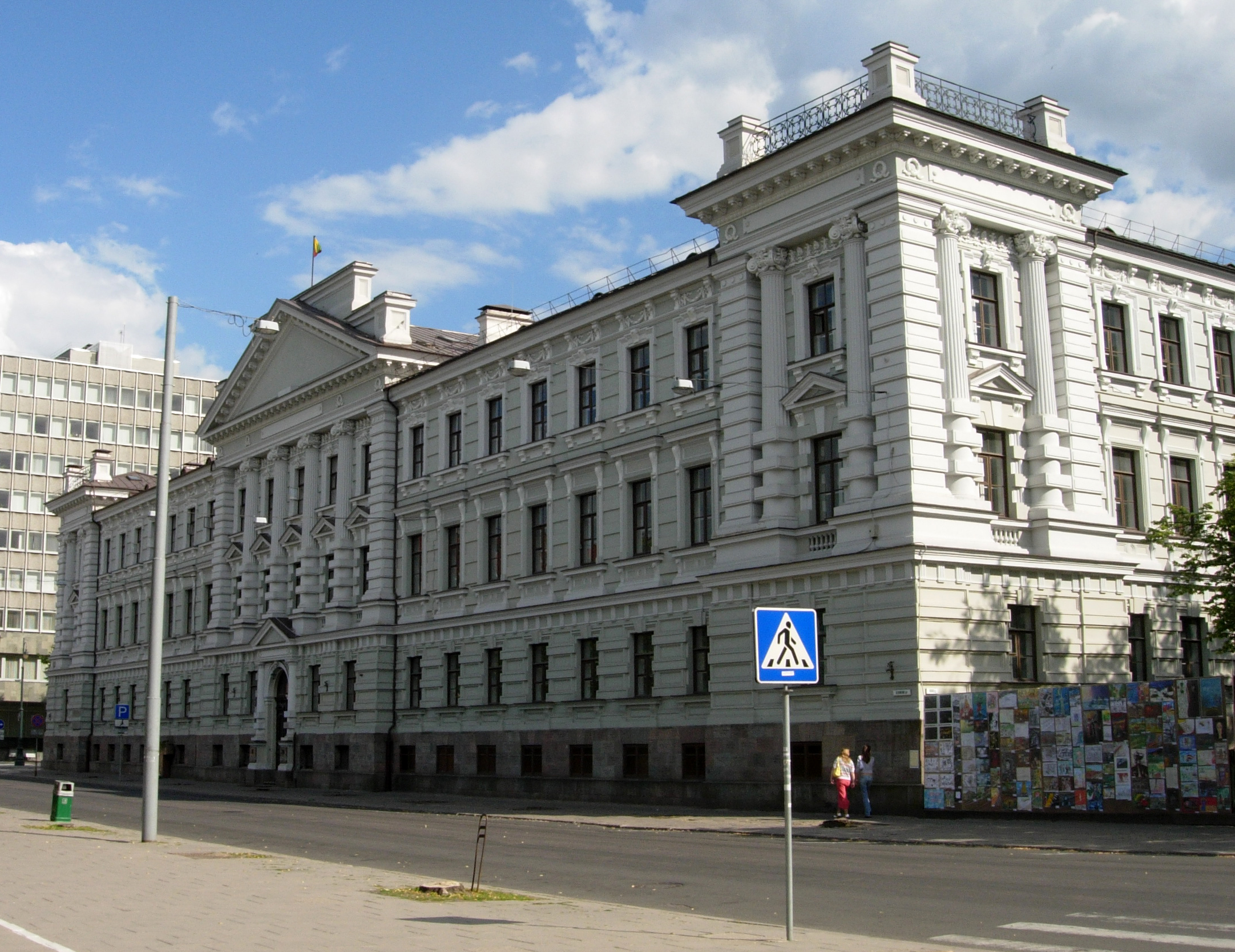 Old KGB building in Vilnius, Lithuania.